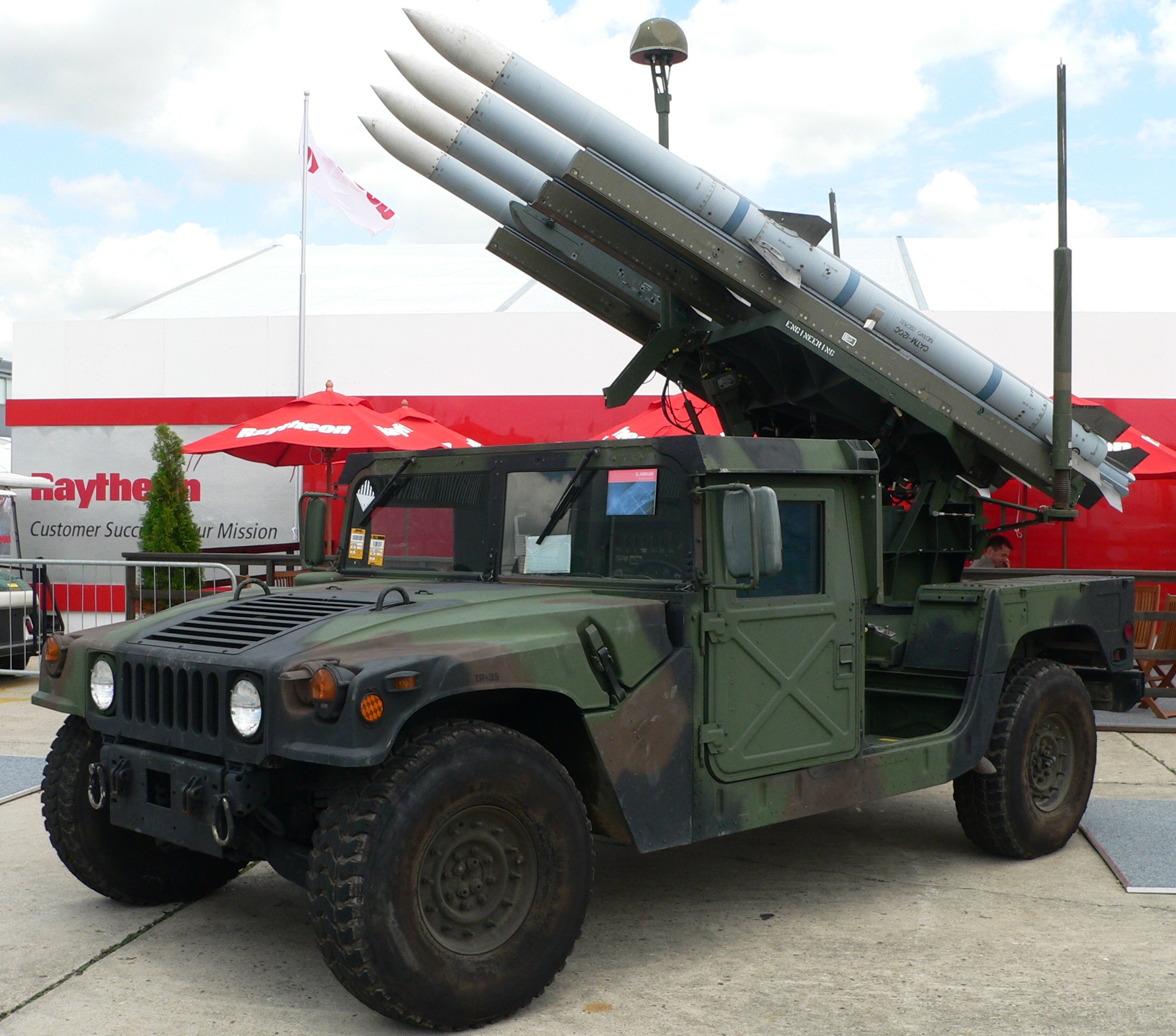 Raytheon CATM 120C (captive training version of AIM 120C AMRAAM)